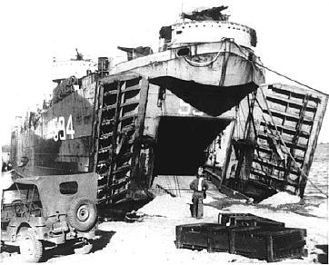 USS LST-594 beached, date and location unknown.